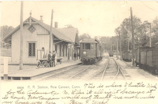 Postcard of New Canaan railroad station showing 1909 postmark Description from auction: Caption on picture side of postcard: "50916 R. R. Station, New Canaan, Conn." Message on picture side of postcard: "This is where I hustle. Work for the Adams [illegible -- "Ex"??] Co. Like it all right because it is [illegible -- "honest"?? "house"?? "home"??]. New Canaan would not tempt me much unless my home was here. Ben F. Weed" Store Web page states: "CT-NEW CANAAN-R.R. STATION-DEPOT-MAILED 1906"